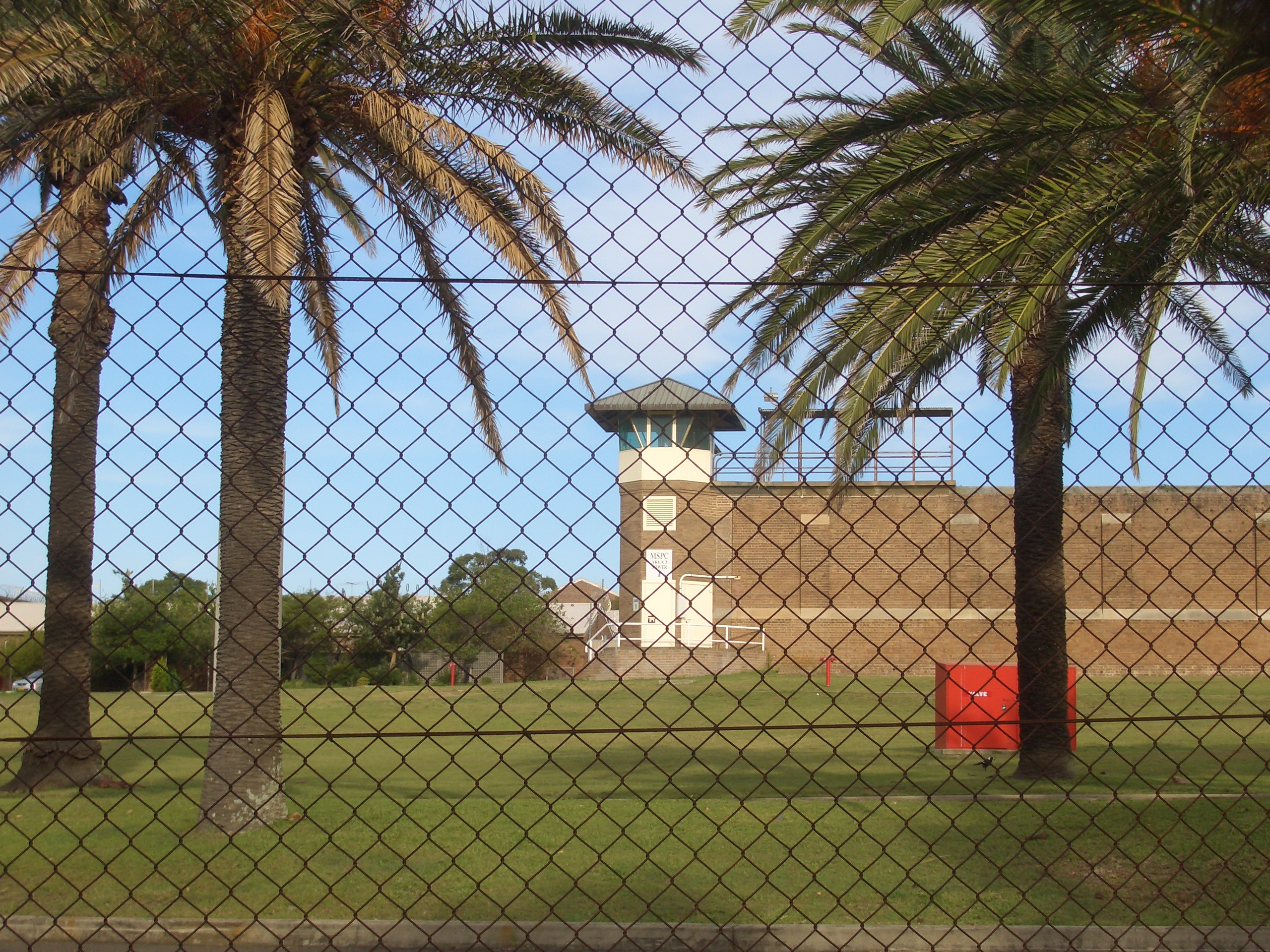 Long Bay Correctional Centre, Anzac Parade